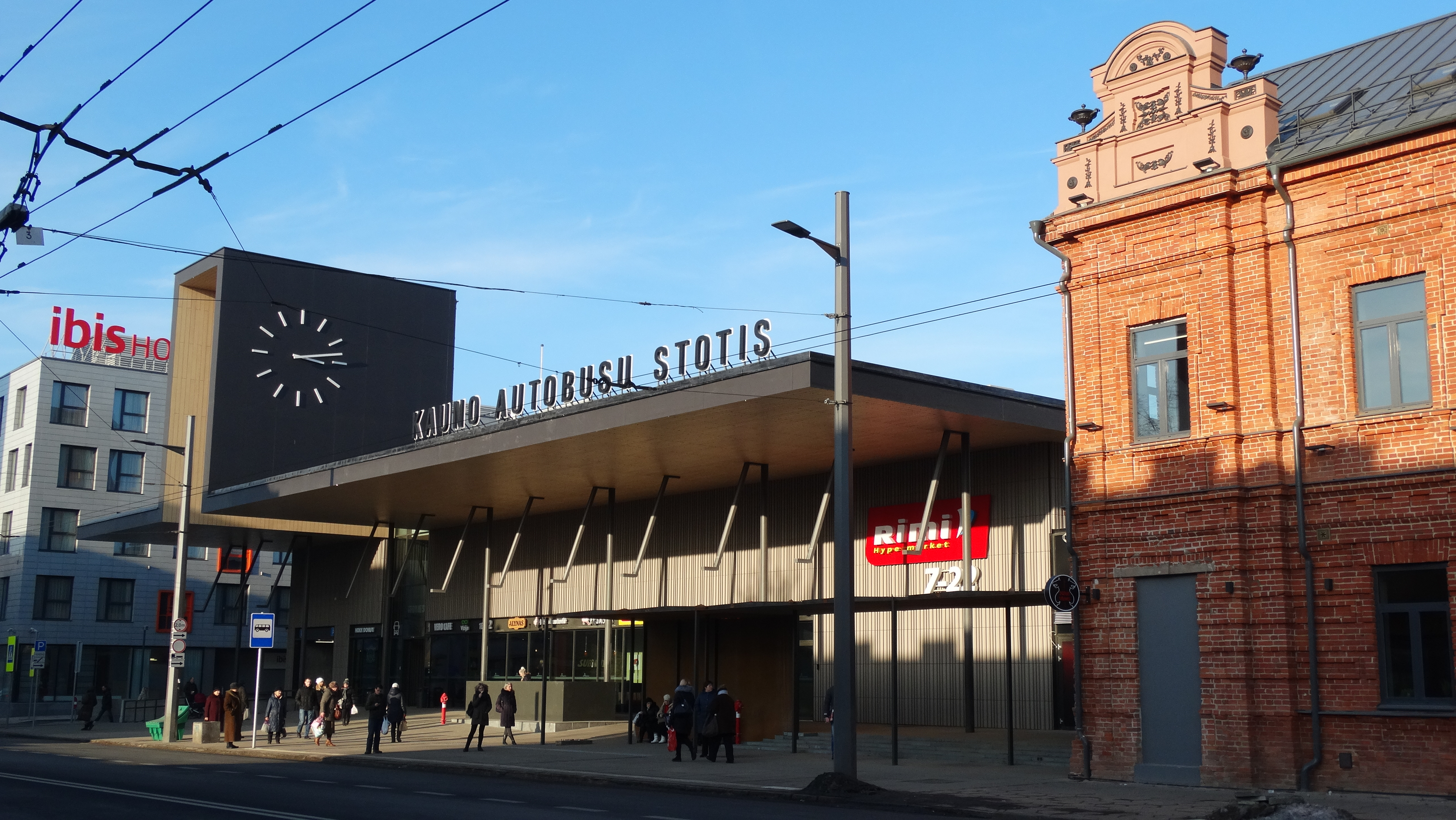 Bus station, Kaunas, Lithuania